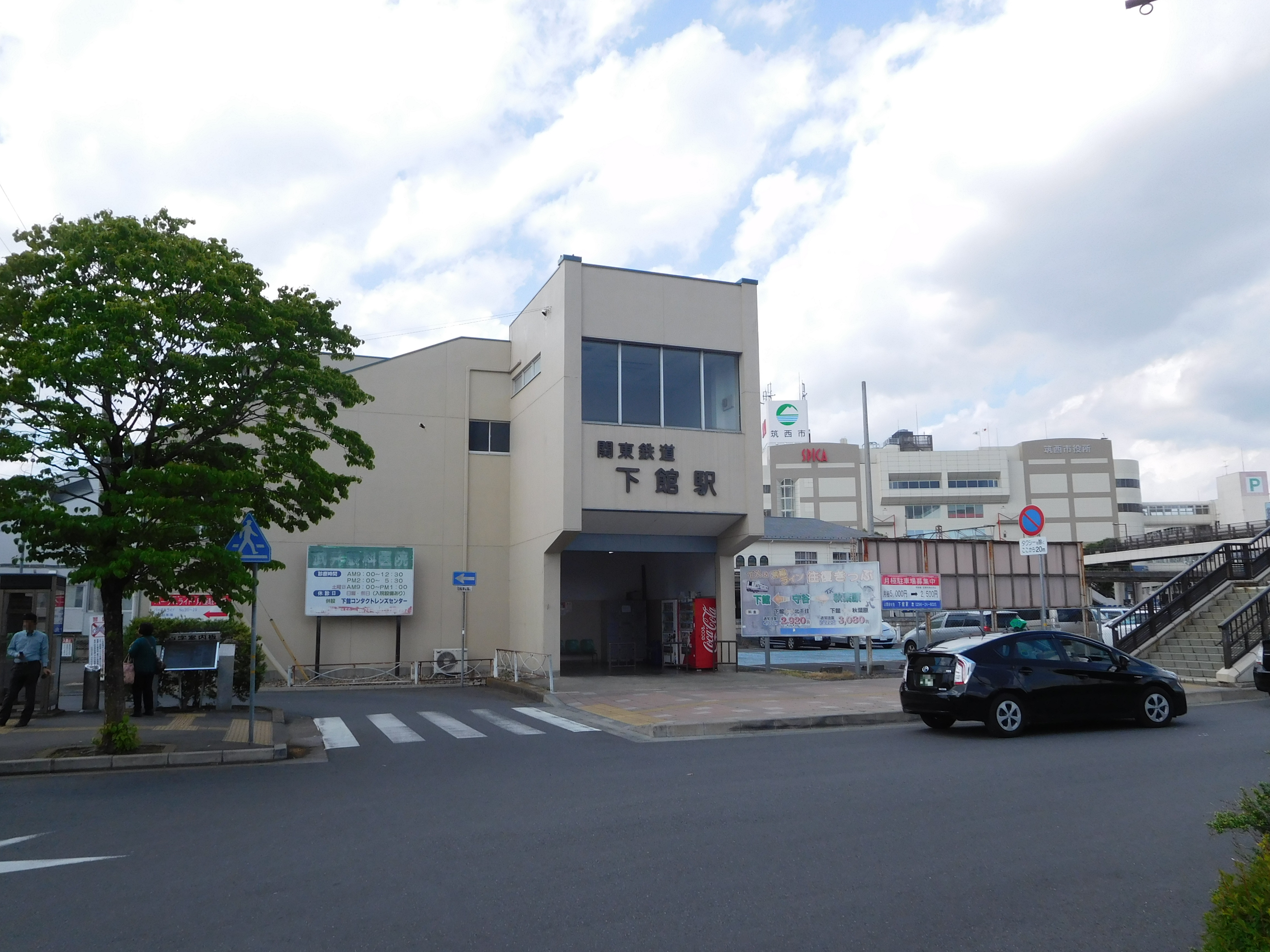 This is Kanto Railway Shimodate station in Chikusei, Ibaraki, Japan.